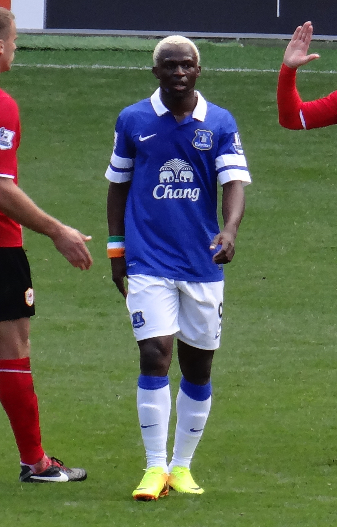 Arouna Koné playing for Everton in 2013.